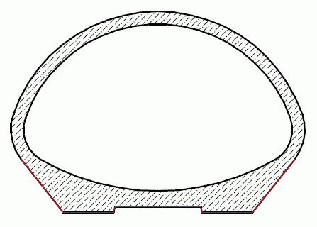 Arch Pipe (Sewer)